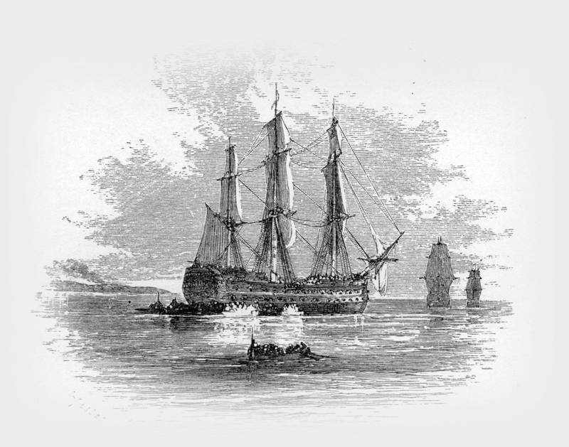 Boats of the Deportation of the Acadians, by Myles Birket Foster (1825-1899), published in the poem Evangeline, a Tale of Acadie (1866).